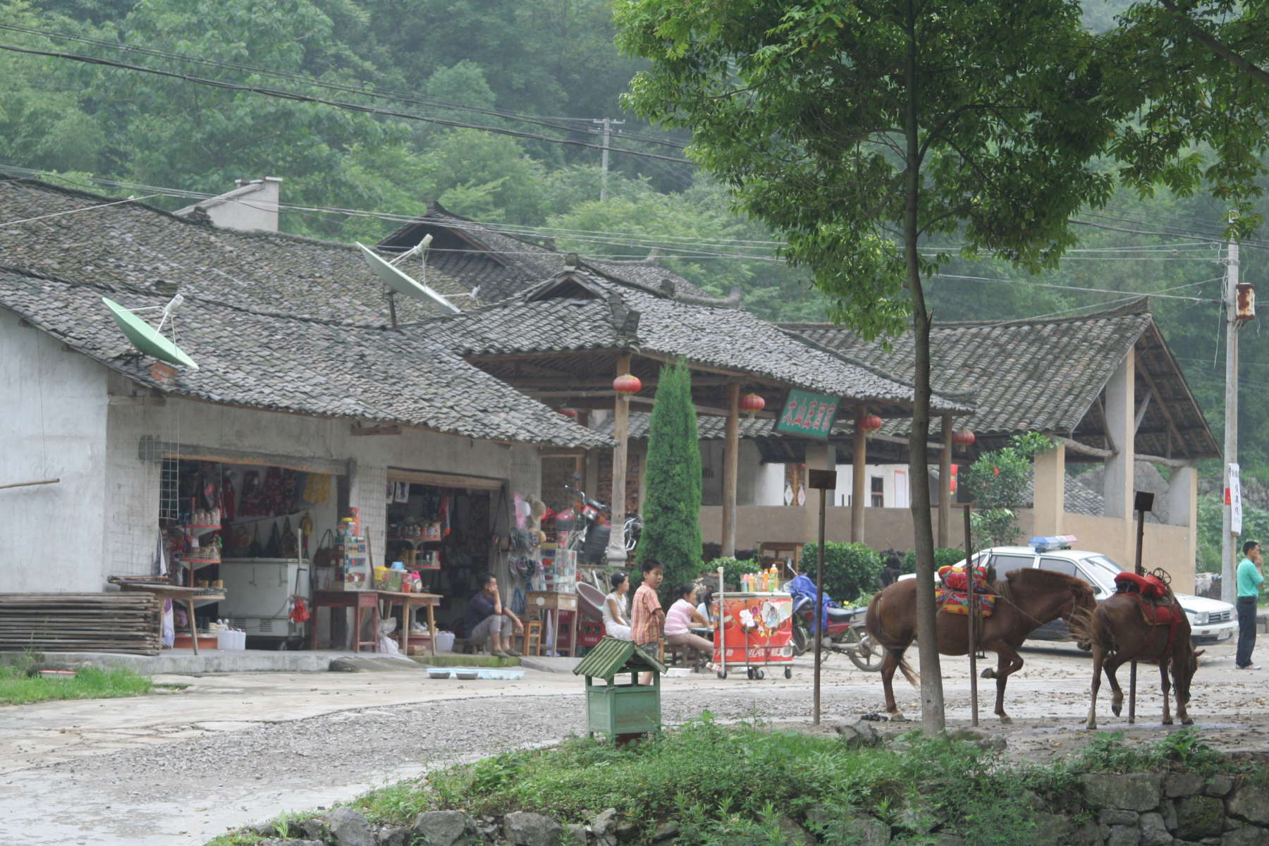 Small tujiazu (土家族) (Chinese minority group) village in Yichang, Hubei province.